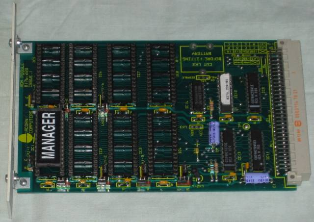 Acorn AKA05 ROM Podule (top).On of the first upgrades for the new Archimedes range was the AKA05 ROM podules. Not that this was really surprising given how popular ROM-based software was for the BBC. The ROM podule can take upto 5 ROM/EPROMs, the ROMs can be 16K, 32K, 64K or 128K. It can also hold up to 2 x 32K RAM with optional battery backup (not fitted to this example but the space is visible in the top right of the first picture.The ROMs can be in native ARM code (for example Aconsoft released an Archimedes version of View and Computer Concpets released an Archimedes version of Wordwise Plus). Alternatively BBC ROMs can be used with the 6502 Emulator. ROM images can be loaded into RAM (if fitted).The ROM Podule Guide is available in the Document section.